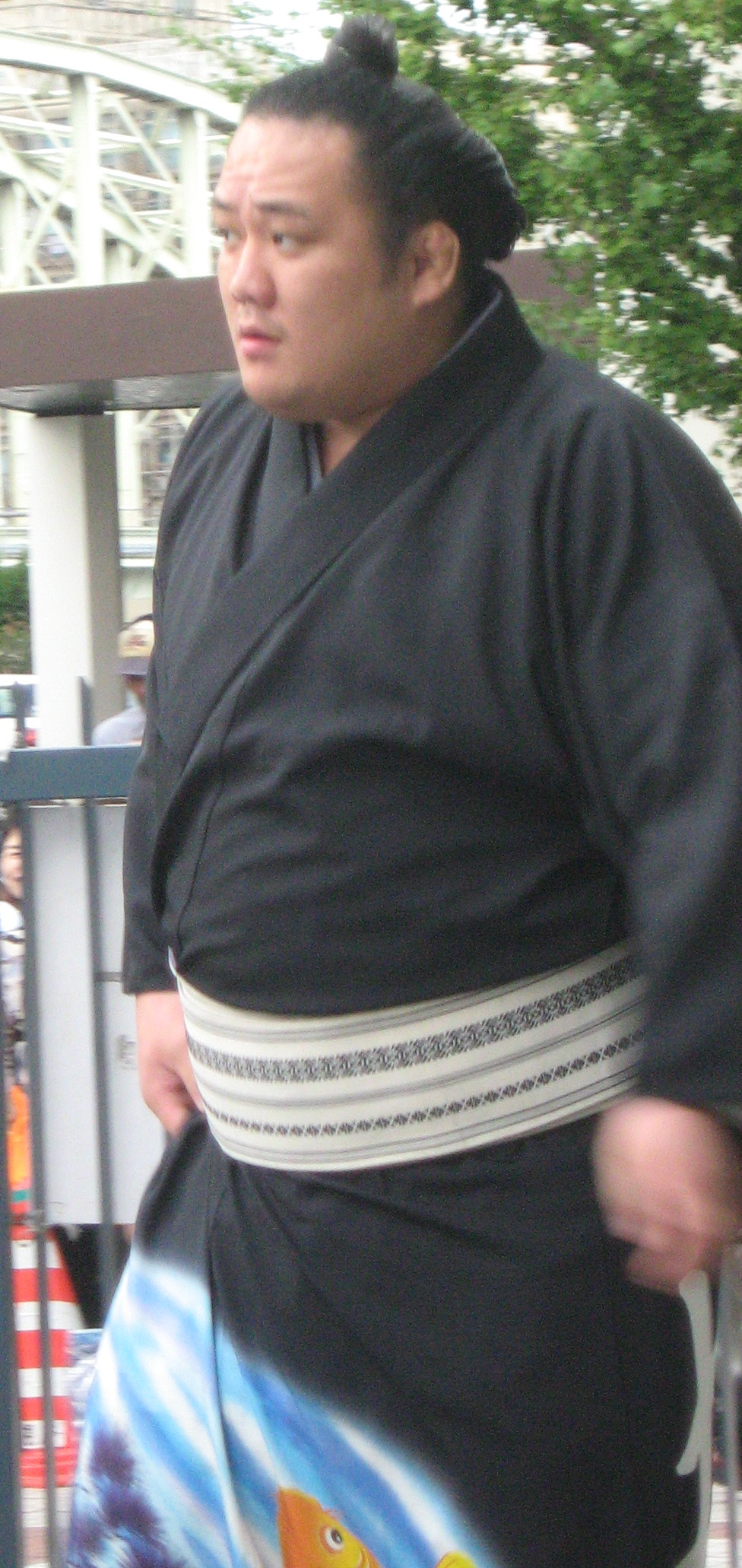 taken at the Sept 2008 tournament